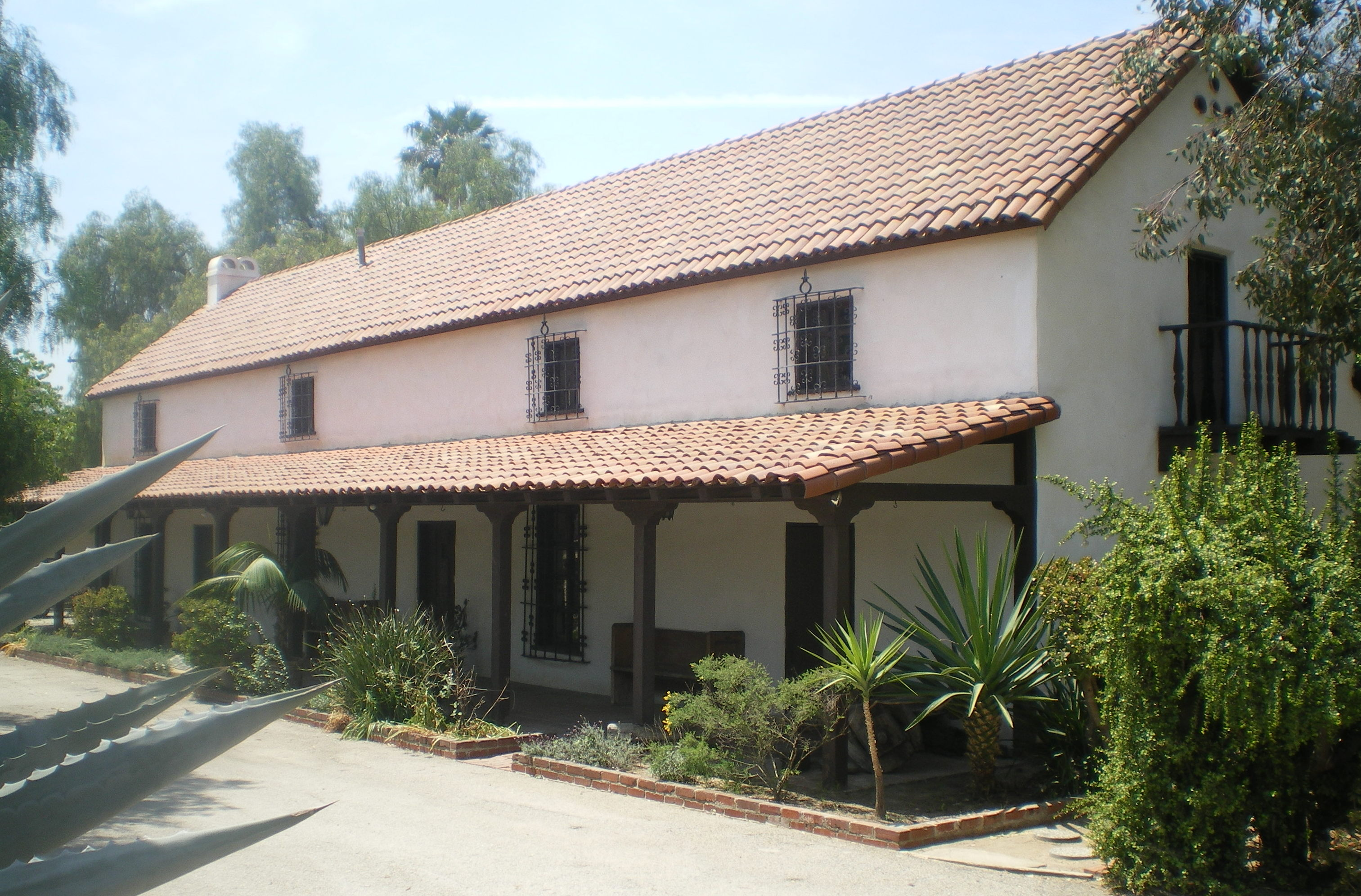 The Rómulo Pico Adobe — a historic house museum in Mission Hills, in the eastern San Fernando Valley. Home of the San Fernando Valley Historical Society archives, library, and museum. Built in 1834, the adobe is the oldest residence standing in the San Fernando Valley. A Los Angeles Historic-Cultural Monument (#7) located at 10940 Sepulveda Boulevard, Mission Hills, Los Angeles, California.